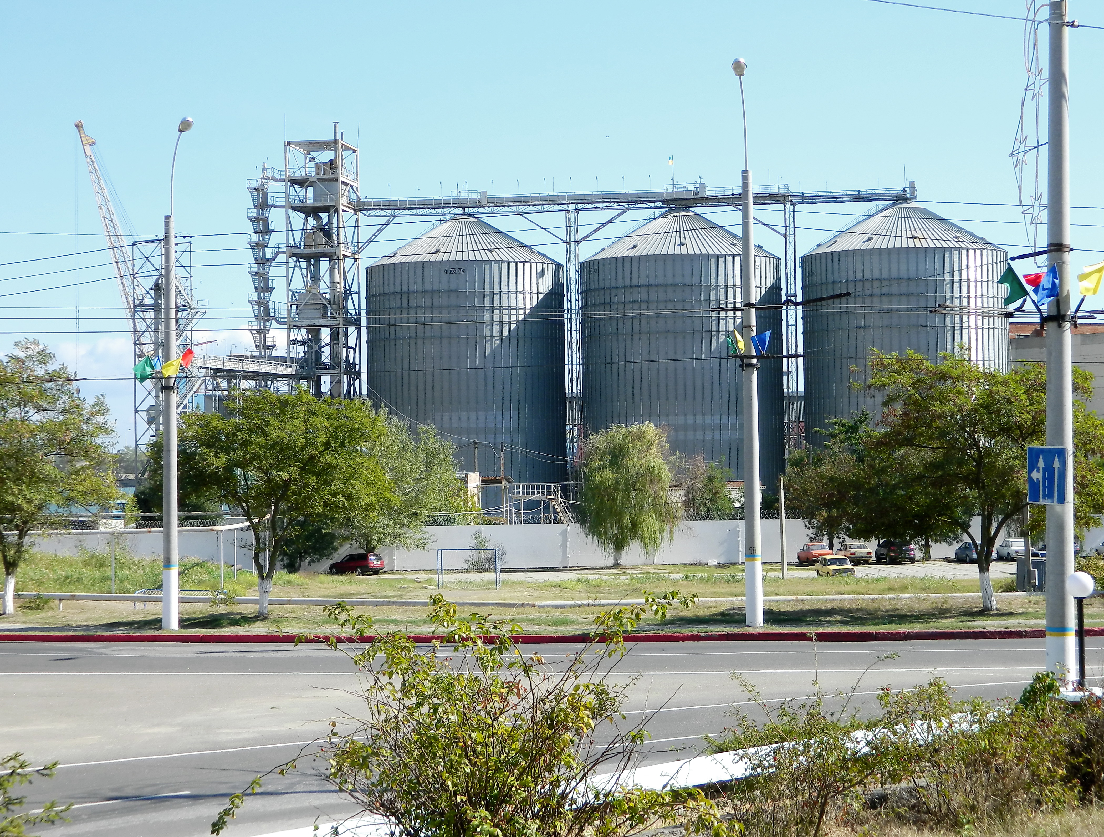 Grain terminal in the seaport Kerch.